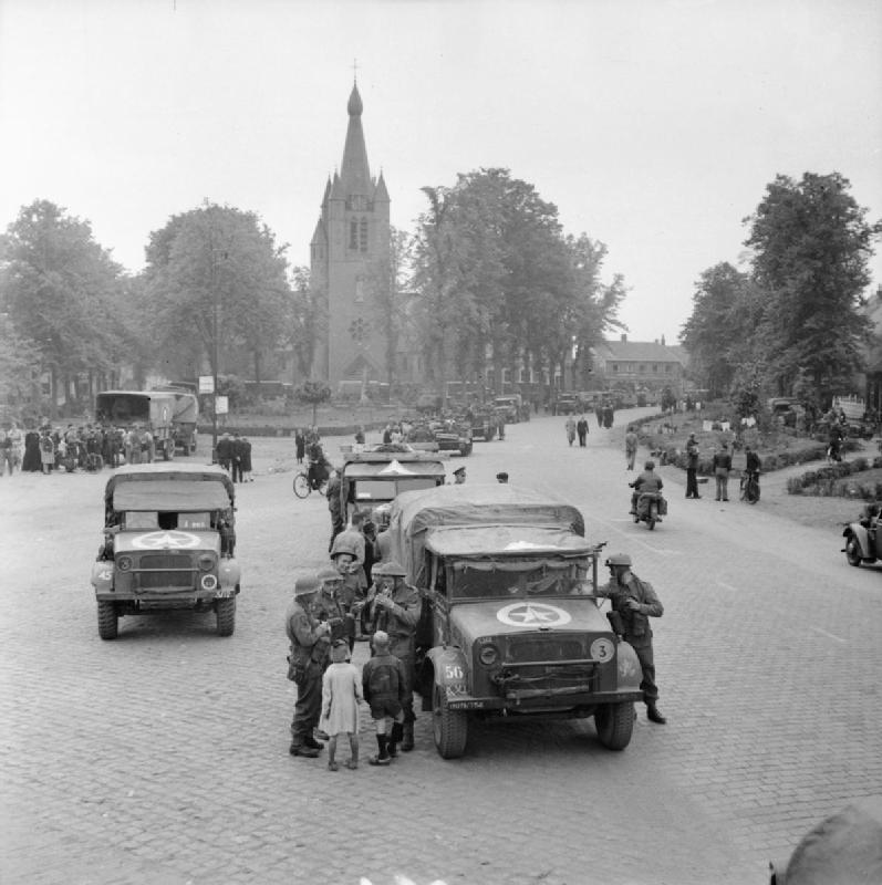 IWM Caption : Bedford MWD trucks and other vehicles of the 4th Wiltshire Regiment, 43rd Division, in Valkenswaard, Netherlands.